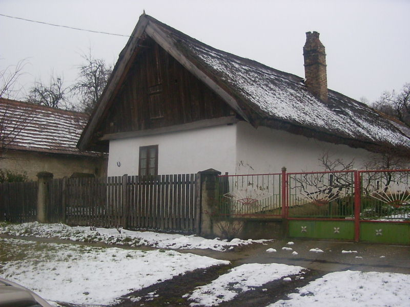 Táp, old home of a peasant family This is a photo of a monument in Hungary, Identifier: 12230